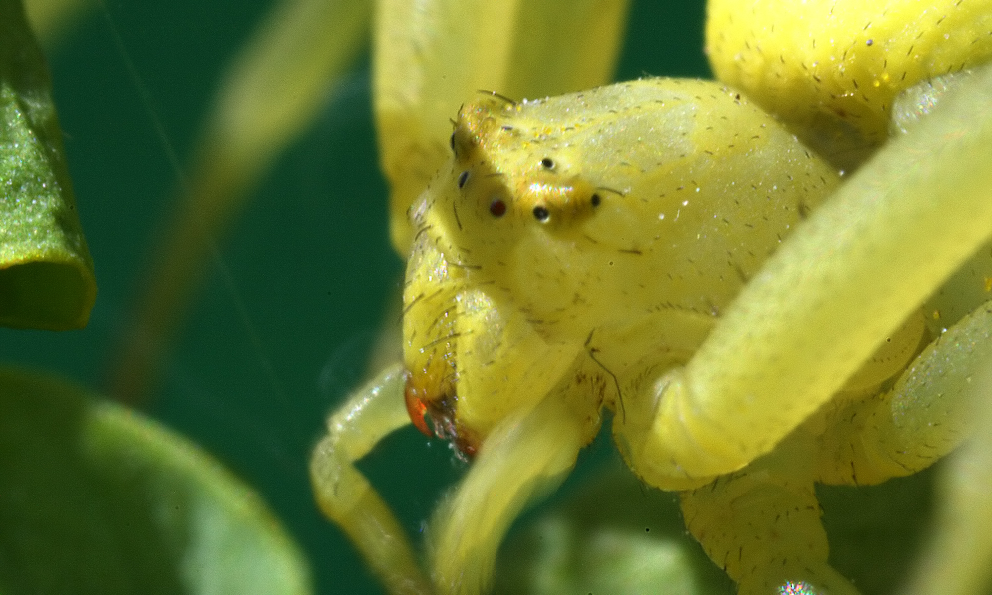 Description: Misumena vatia - closeup on eyes